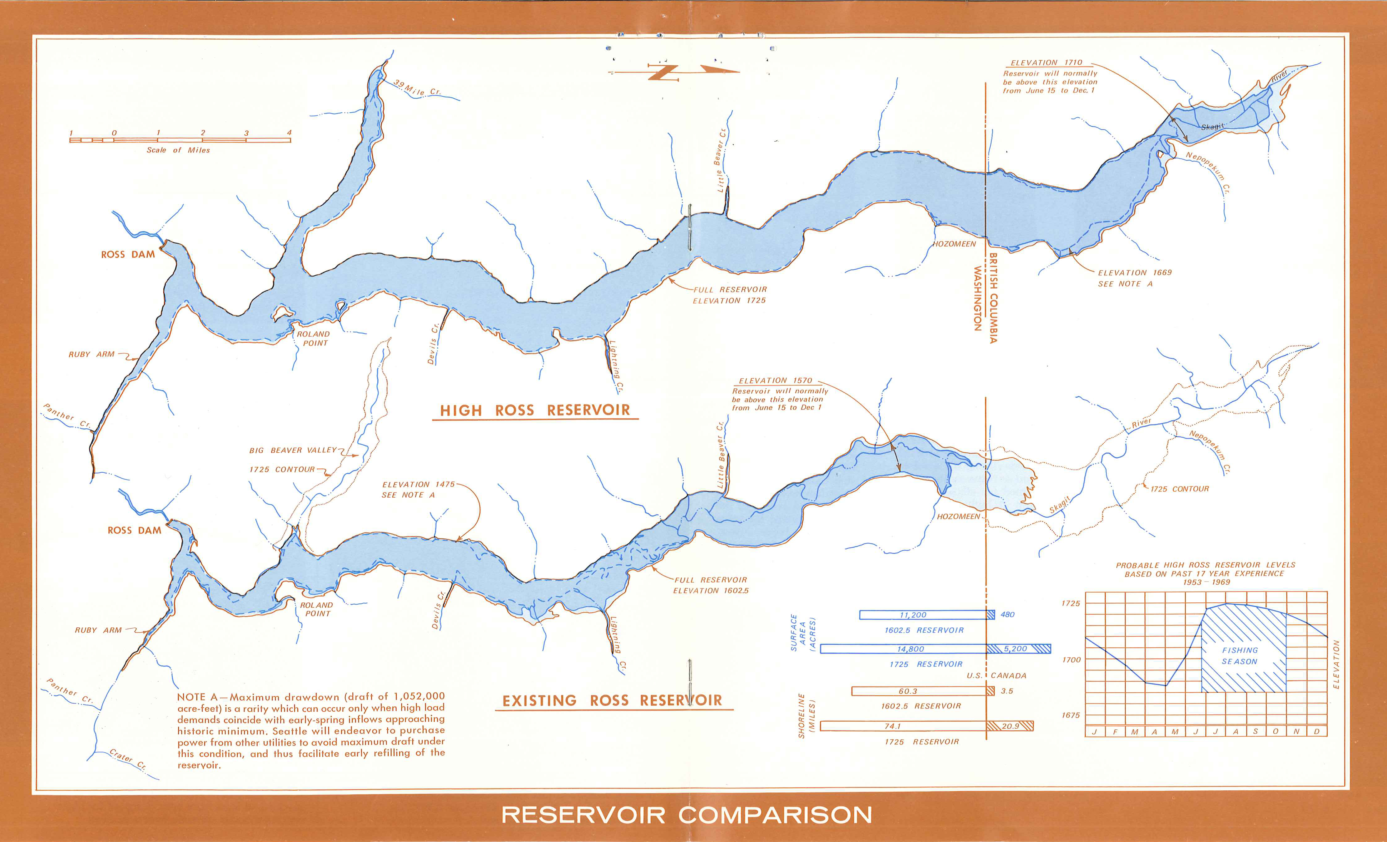 Pair of maps showing comparison of lake size if the 4th stage "high dam" at Ross Dam had been built. This is an official Seattle City Light map from when the proposal was still active in 1970. Found in Vertical File 178, Seattle Municipal Archives.